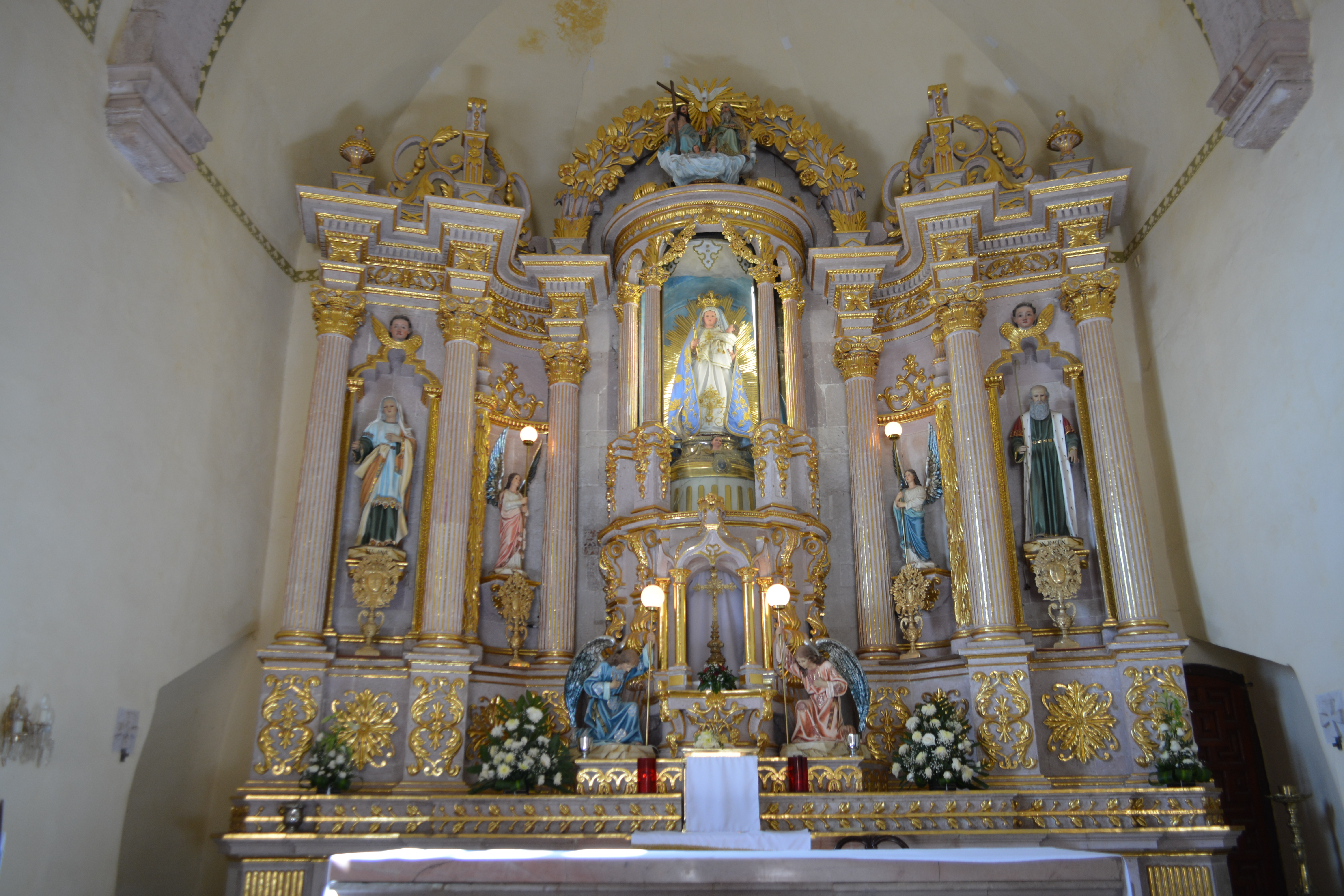 View of the main altar. Our Lady of Patronage Sanctuary (in a